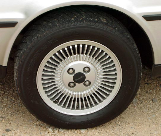 Mid 1981 De Lorean silver wheel style. easing image under GFDL licensing